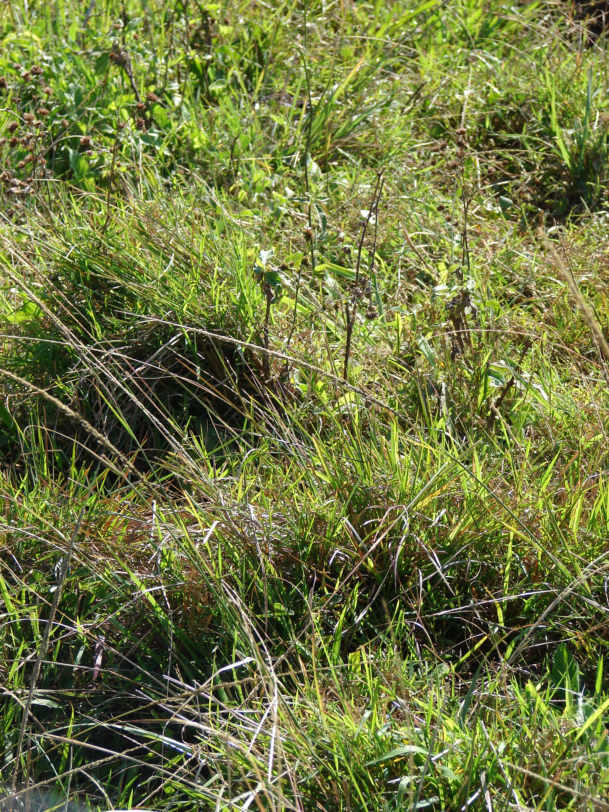 Elephantopus mollis (habit). Location: Maui, Haiku